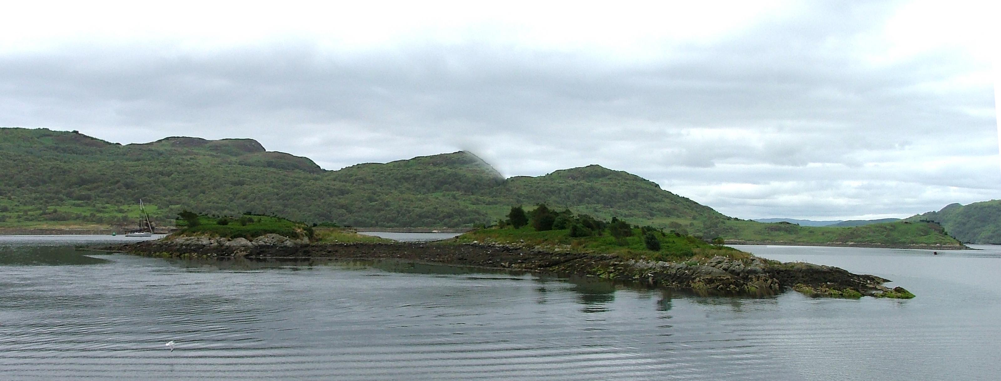 Eilean Fraoich photographed from the PS Waverley in the summer of 2005.